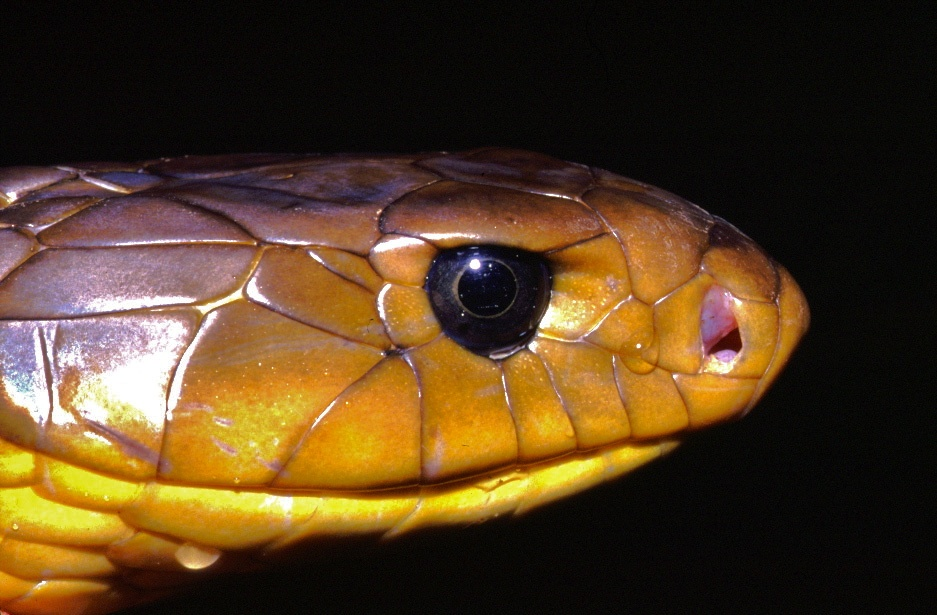 Montagne de Kaw, Guyane, FRANCE Scanned slide from 2001